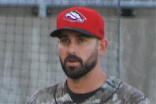 Jimmy Van Ostrand coaches the Arkansas Travelers